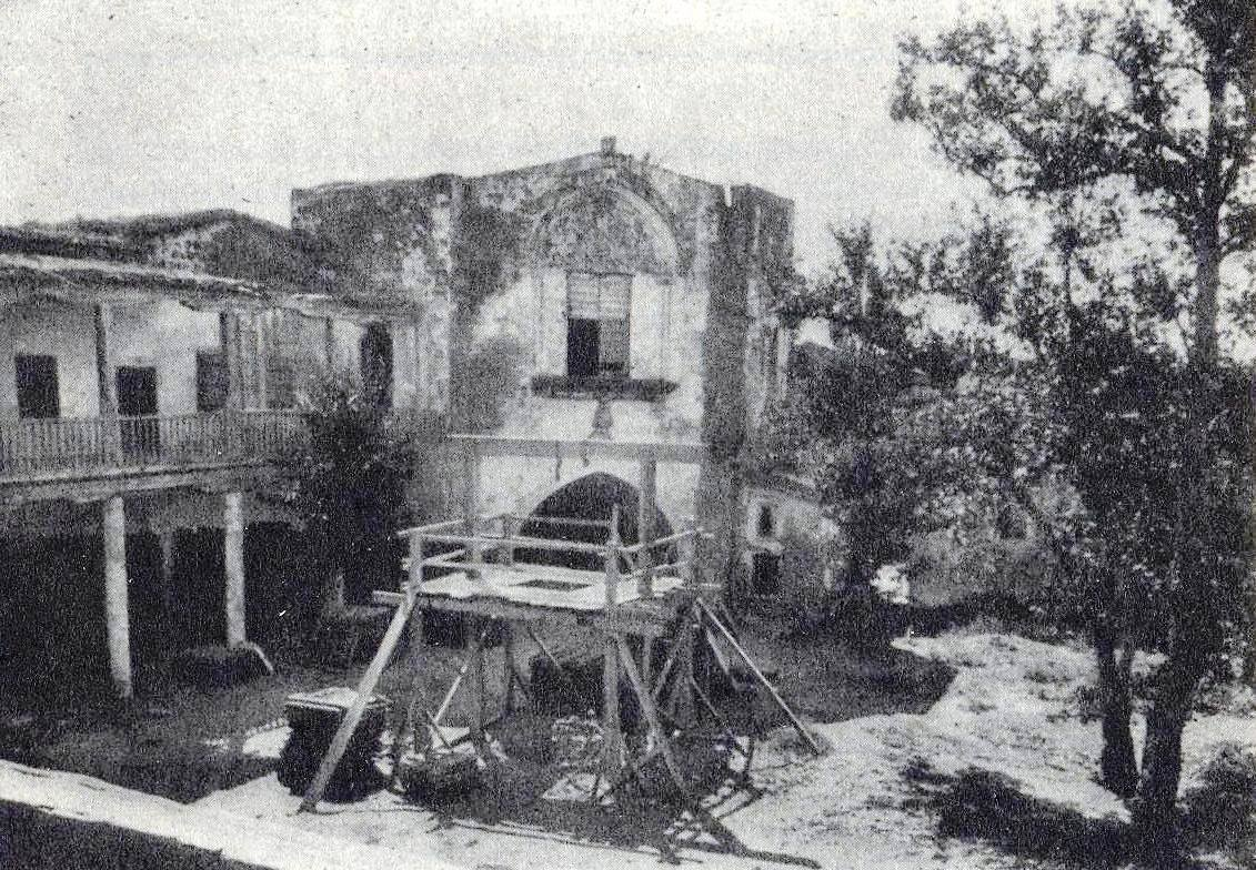 Old Lusignan Palace in Sarayönü Square before being demolished and replaced with the current Law Courts.